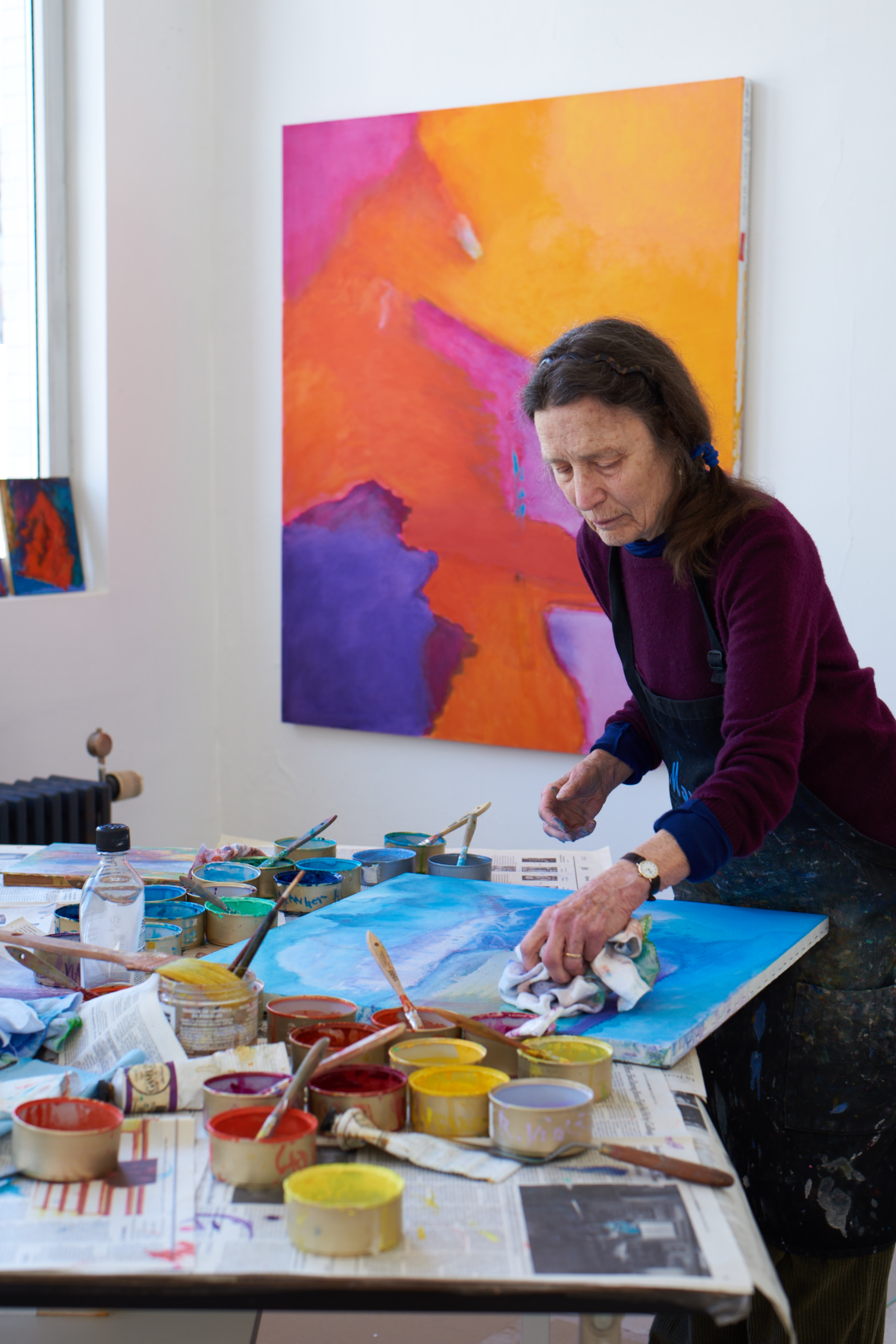 This is a photo taken of Emily Mason working in her studio in Manhattan in April 2016.